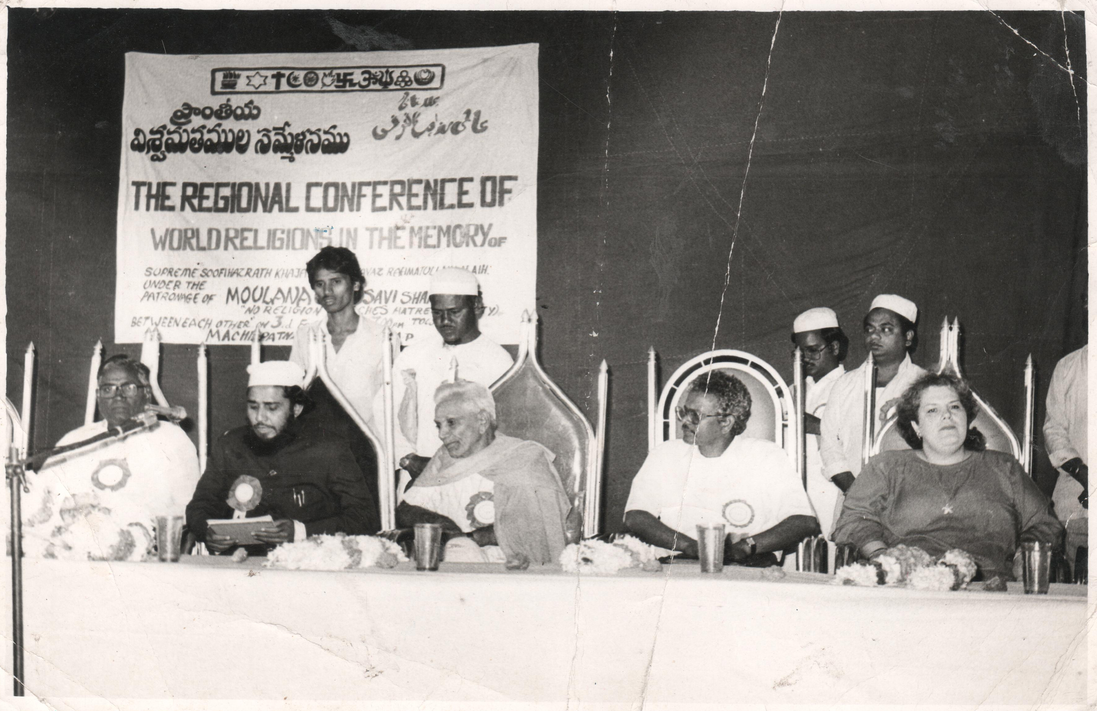 Regional Conference of World Religions organized by Moulana Ghousavi Shah(Secretary General: The Conference of World Religions)